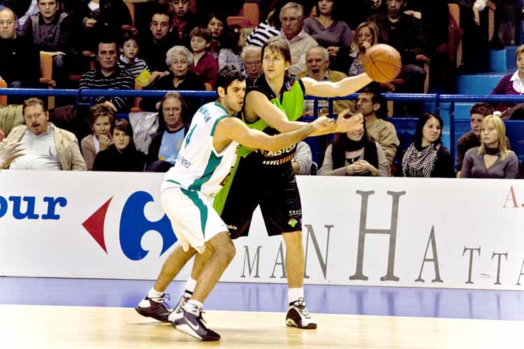 Samad Nikkhah Bahrami